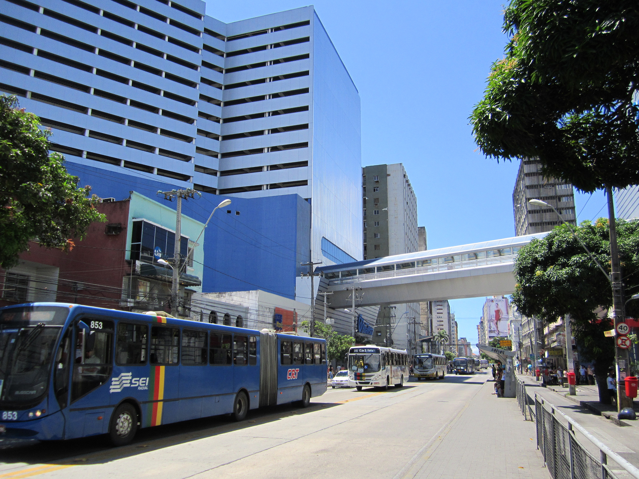 Bus lane - Recife, Pernambuco, Brazil